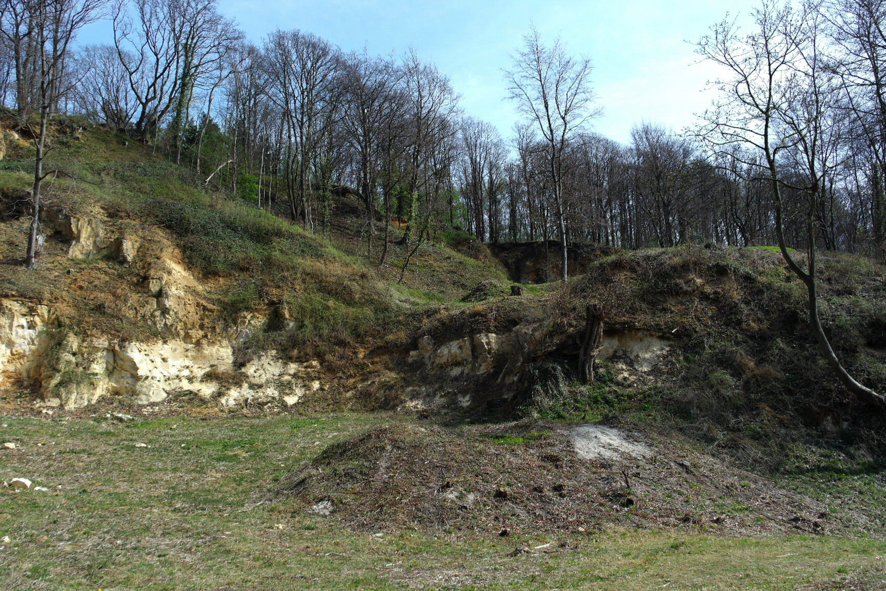 Sibbe, Limburg, the Netherlands. Site of former lime kilns in Biebosch near Sibbergrubbe. The Limburg lime kilns used local limestone, producing lime plaster and lime mortar at the beginning of the 20th century.